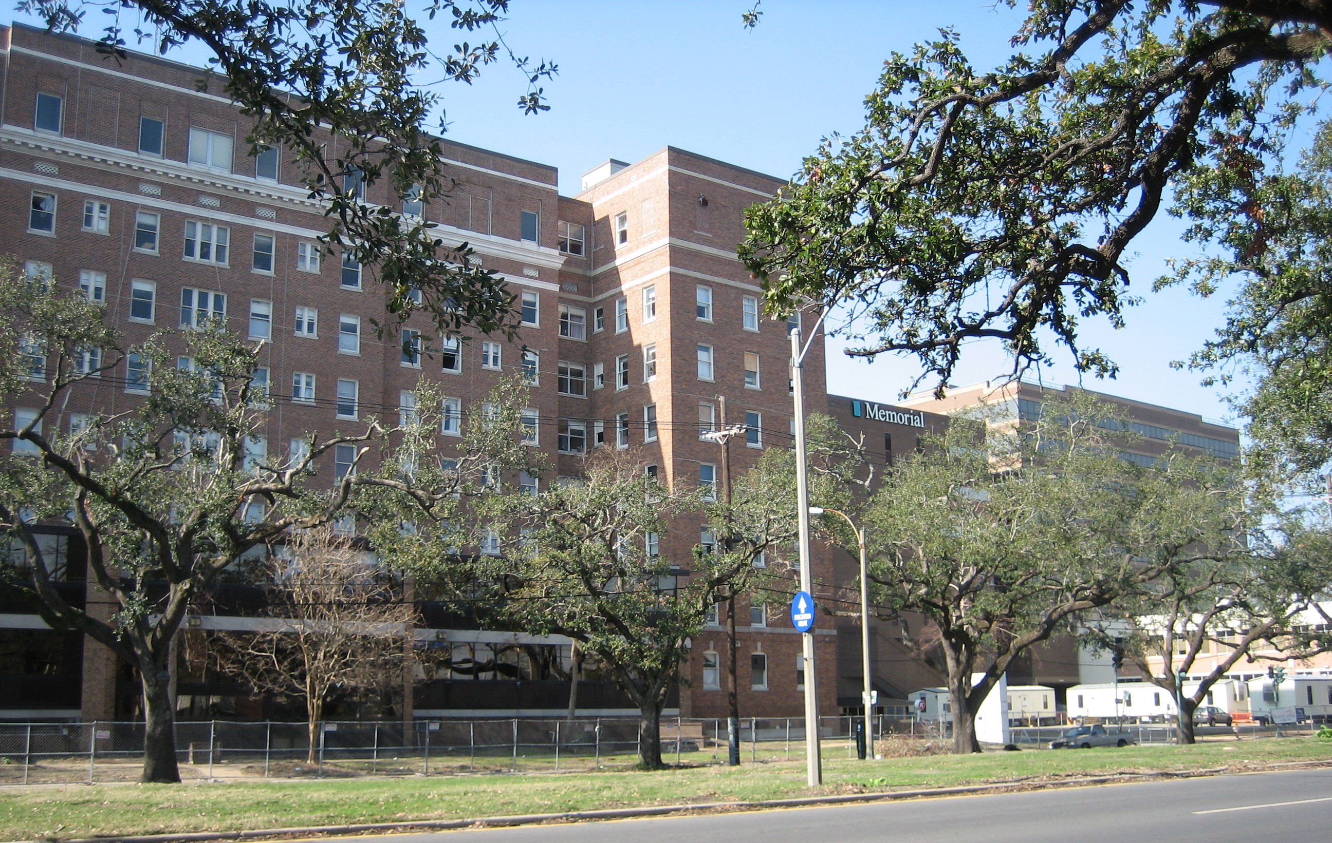 New Orleans after Hurricane Katrina: Closed Memorial Medical Center (formerly Southern Baptist Hospital) on Napoleon Avenue. Lower floor was flooded after the storm.